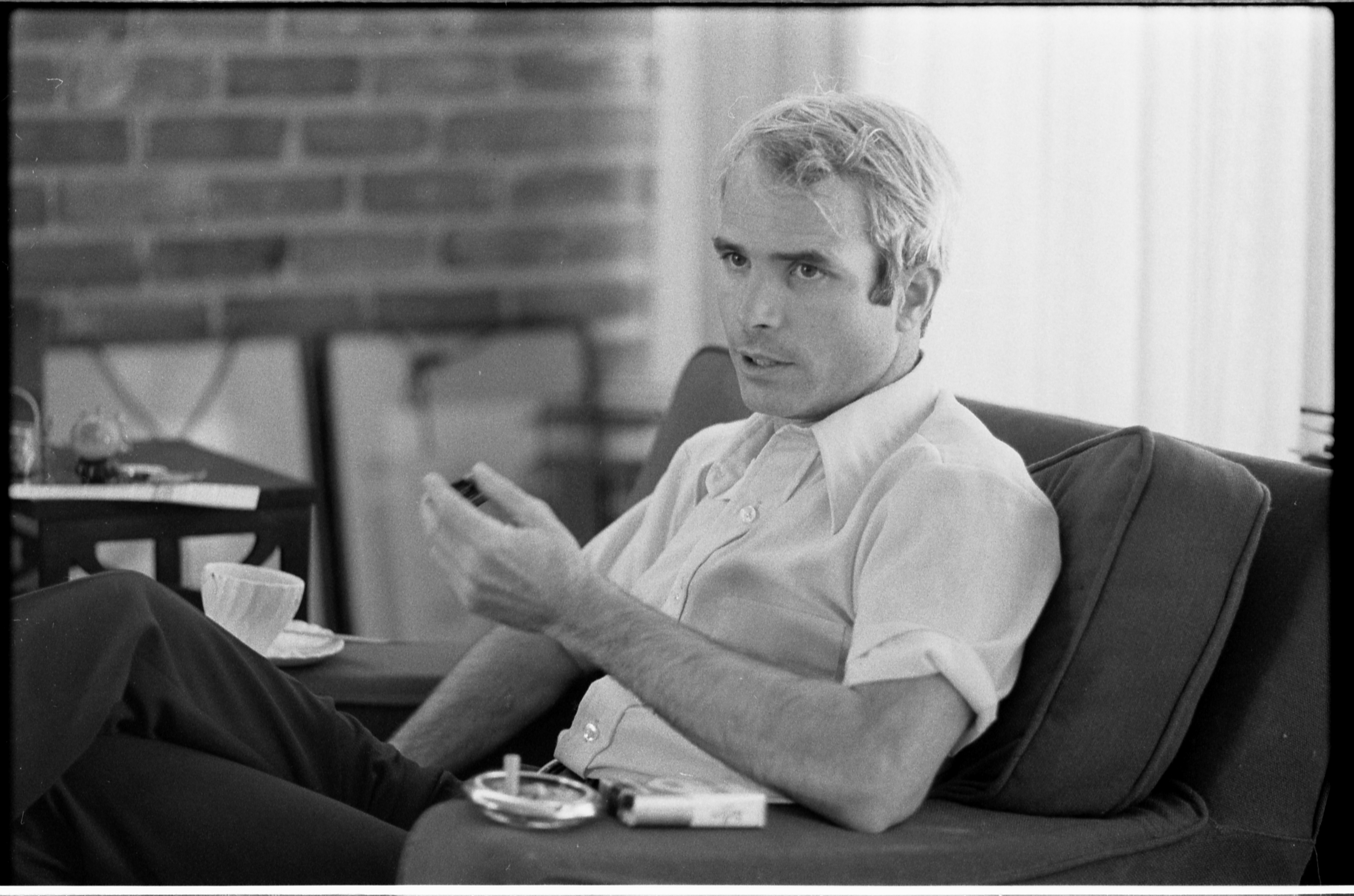 IVU w/ [i.e., interview with] Lt. Comdr. John S. McCain, Vietnam POW / [TOH].